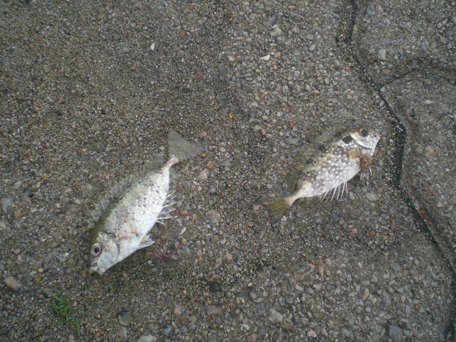 Rabbitfish